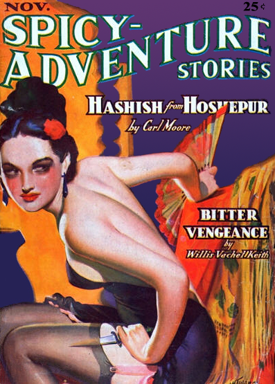 Cover of the pulp magazine Spicy-Adventure Stories (November 1936, vol. 5, no. 2) featuring "Hashish for Hoshepur" by Carl Moore and "Bitter Vengeance" by Willis Vachel Keith. PNG version of this file.